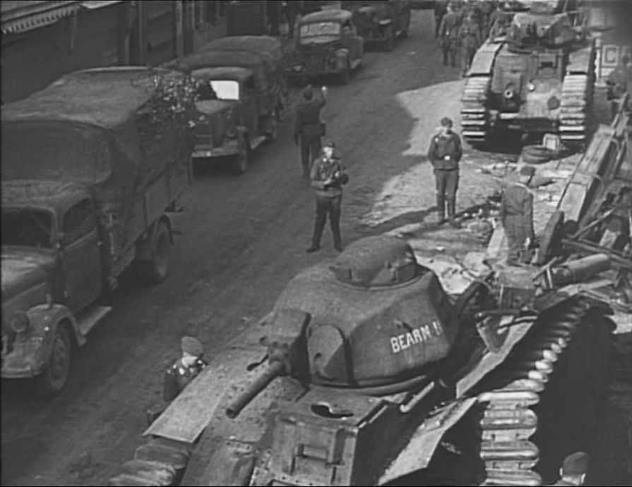 Abandoned French B1 bis tanks in Beaumont, Belgium, are inspected by German soldiers in May 1940. Screenhot taken from the 1943 United States Army propaganda film Divide and Conquer (Why We Fight #3) directed by Frank Capra and partially based on, news archives, animations, restaged scenes and captured propaganda material from both sides.